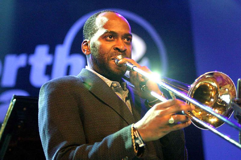 Ron Westray